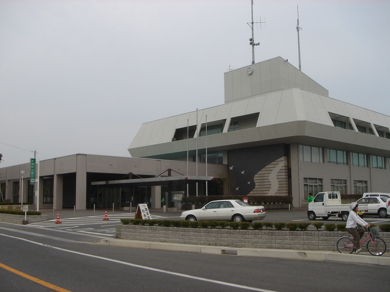 Kaizu City Hall in Gifu Preferture, Japan